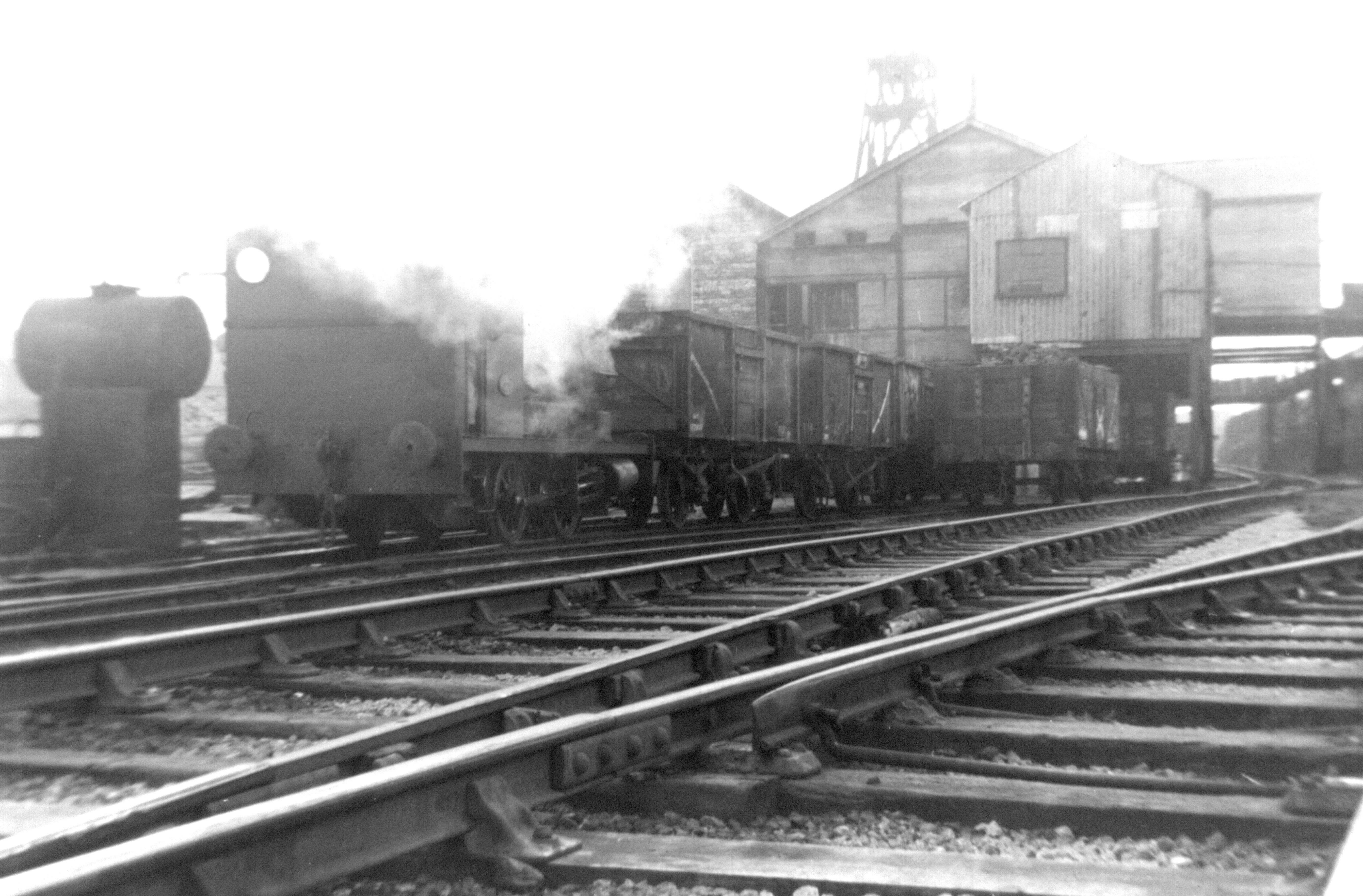 Coronet Clipper 120 camera. Scanned from print, negative long lost!